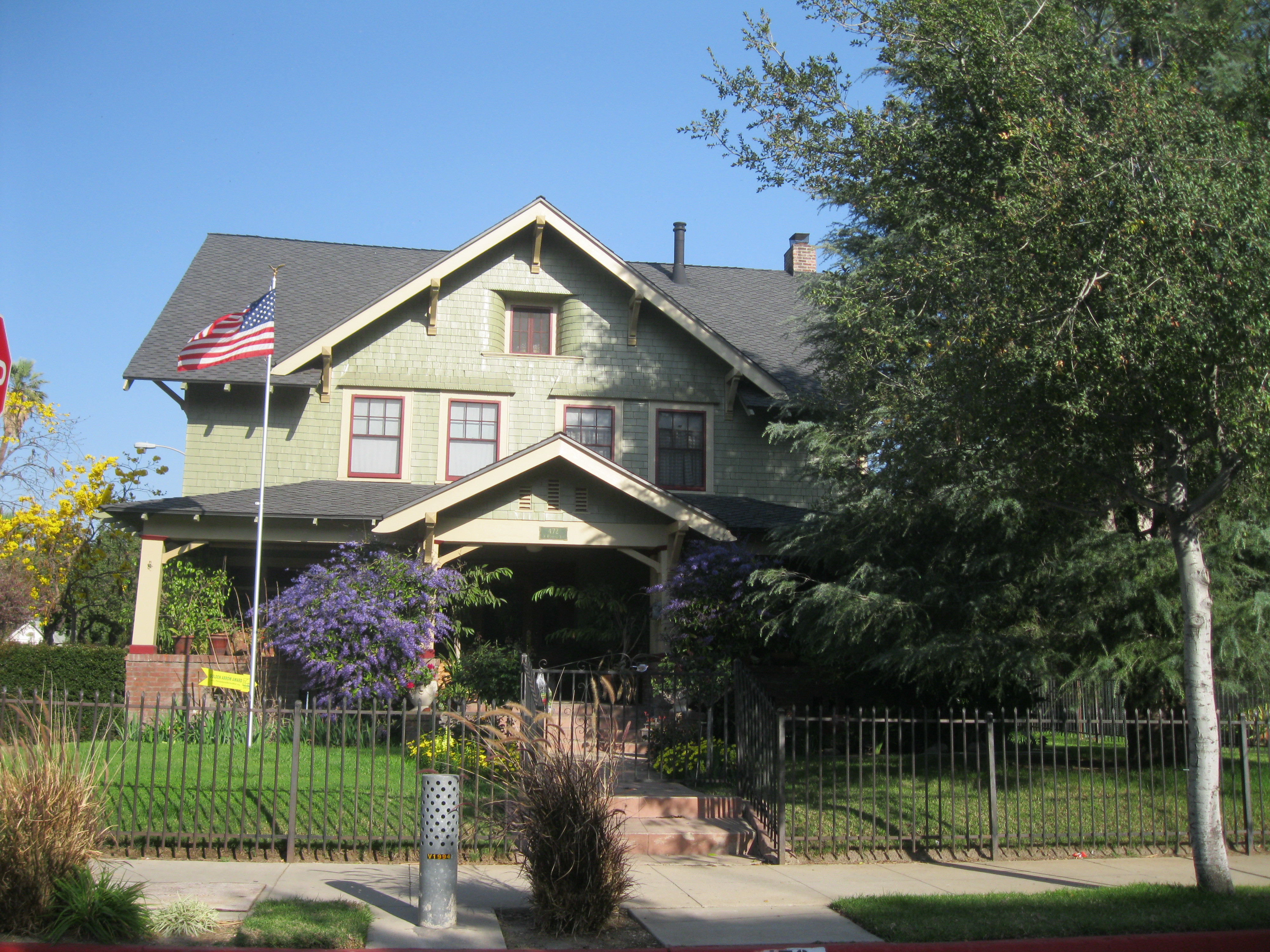 472 North Raymond Avenue, a house in the Raymond-Summit Historic District in Pasadena, California. The district is listed on the National Register of Historic Places.